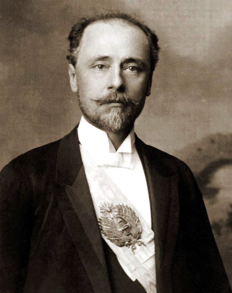 Former president of Argentina (1886-1890) Miguel Juárez Celman.